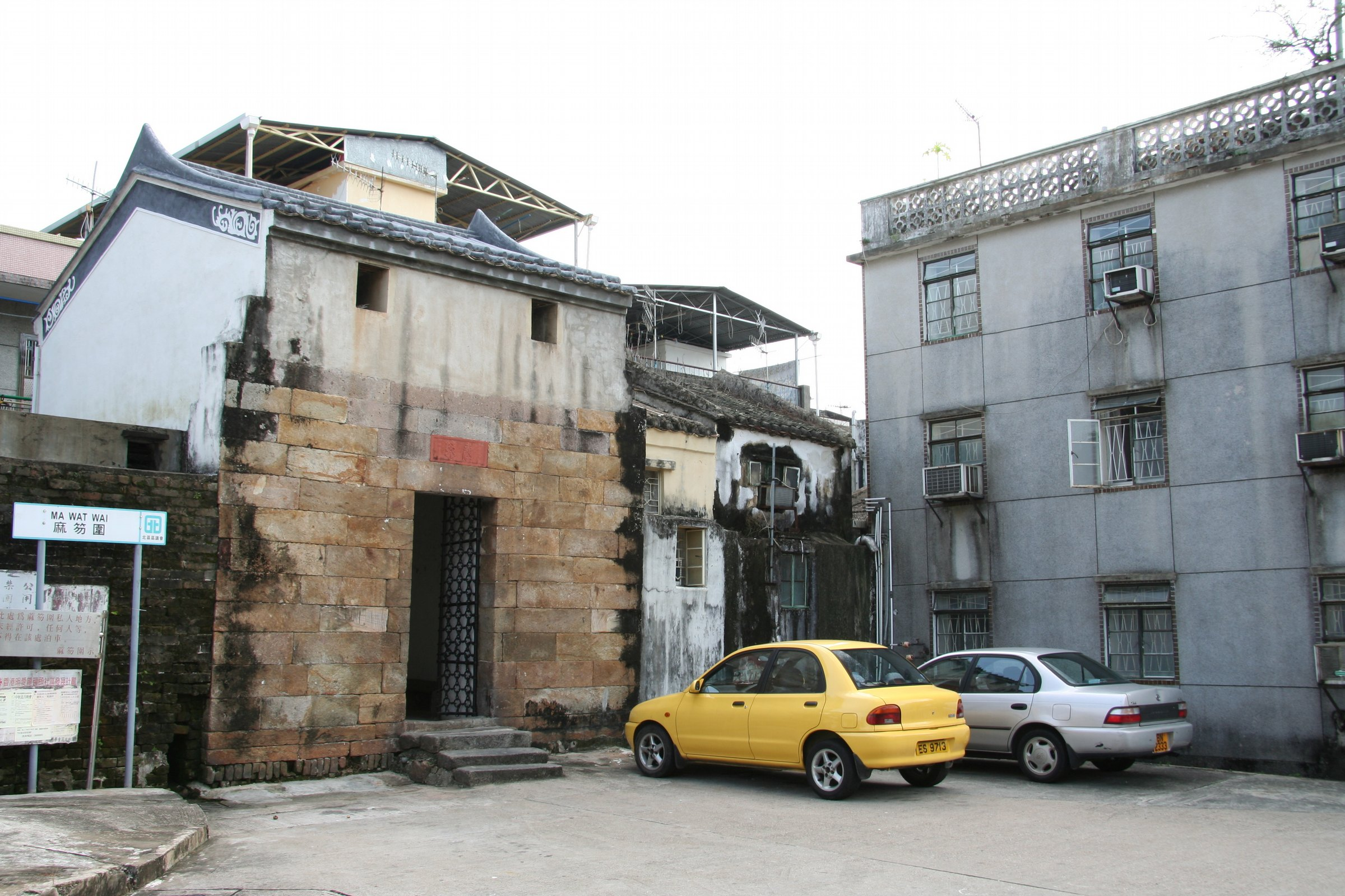 粉嶺麻笏圍 Ma Wat Wai, Fanling (Photo by me).